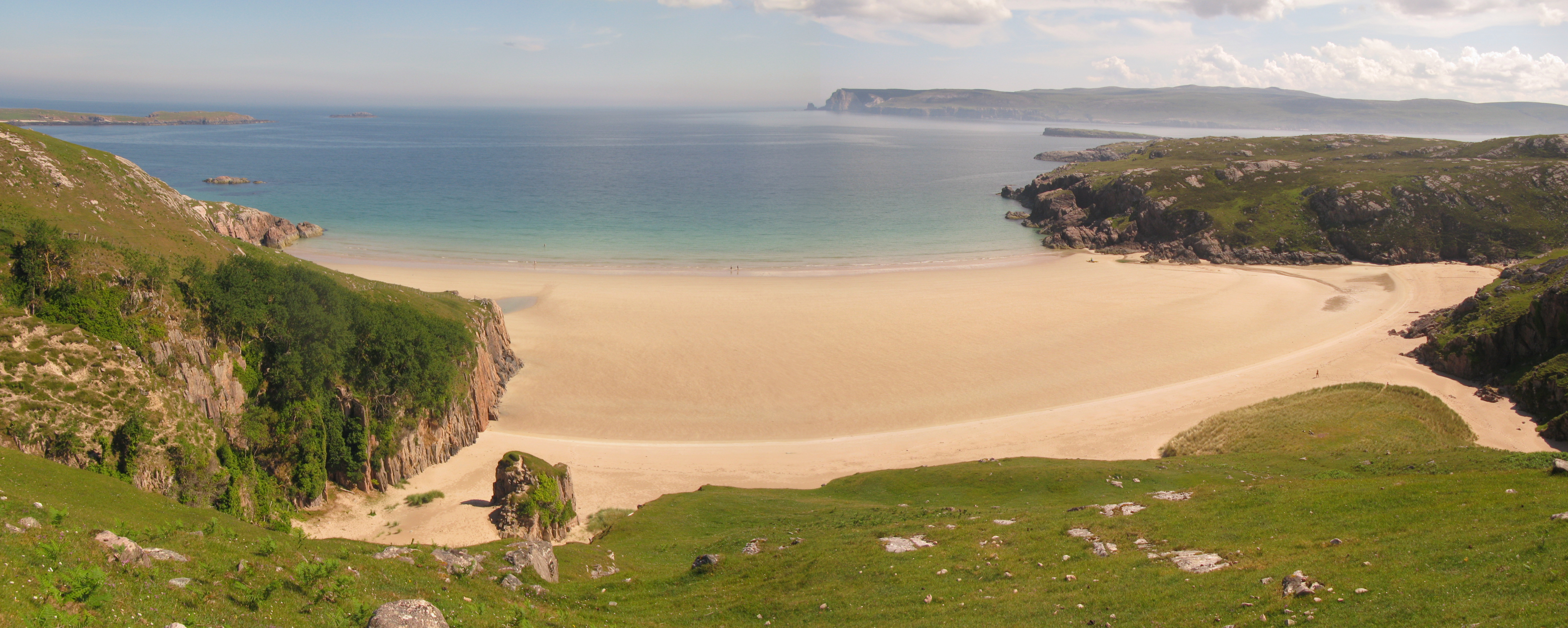 scottish beach close to Durness in the Highlands